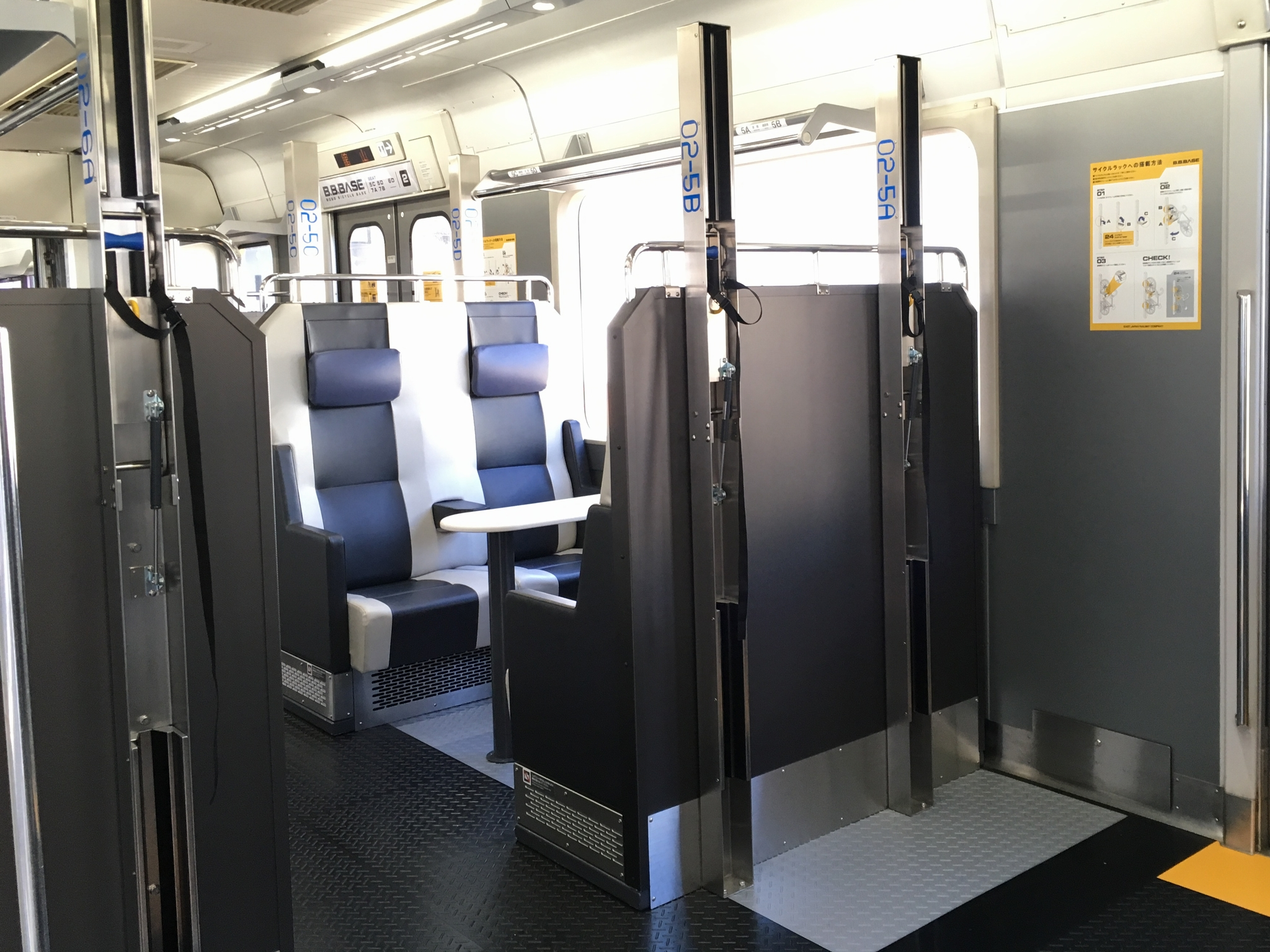 The East Japan Railway Company (JR East) 209-2200 series "Boso Bicycle Base" Seat and Cycle Rack at Tateyama Station in Chiba Prefecture, Japan